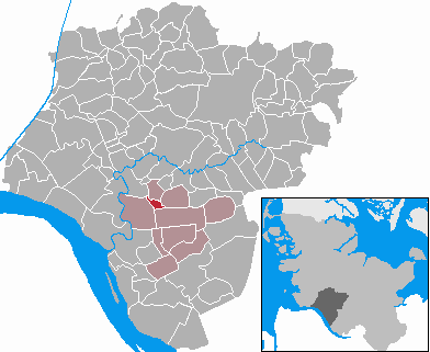 This map shows the area of the municipality Krempermoor in the Kreis (district) Steinburg, Schleswig-Holstein, Germany.